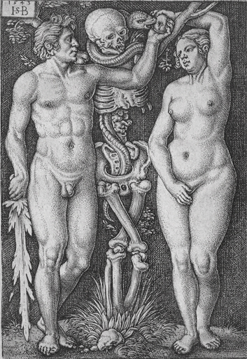 Photograph of "Adam and Eve", 1543. Engraving, by Hans Sebald Beham - in the public domain.